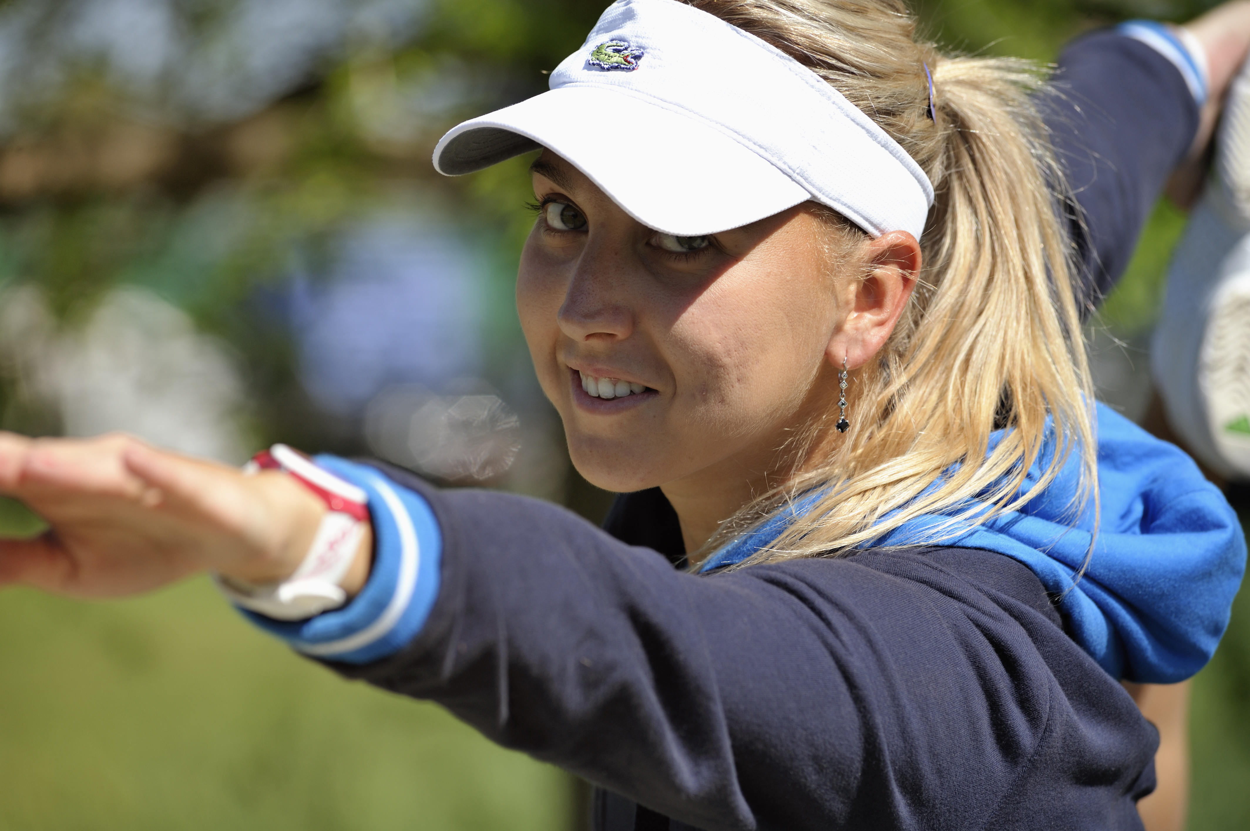 Vesnina in Charleston.